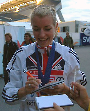 2006 European Athletics Championships Becky Lyne signs autographs after winning the 800m bronze medal.